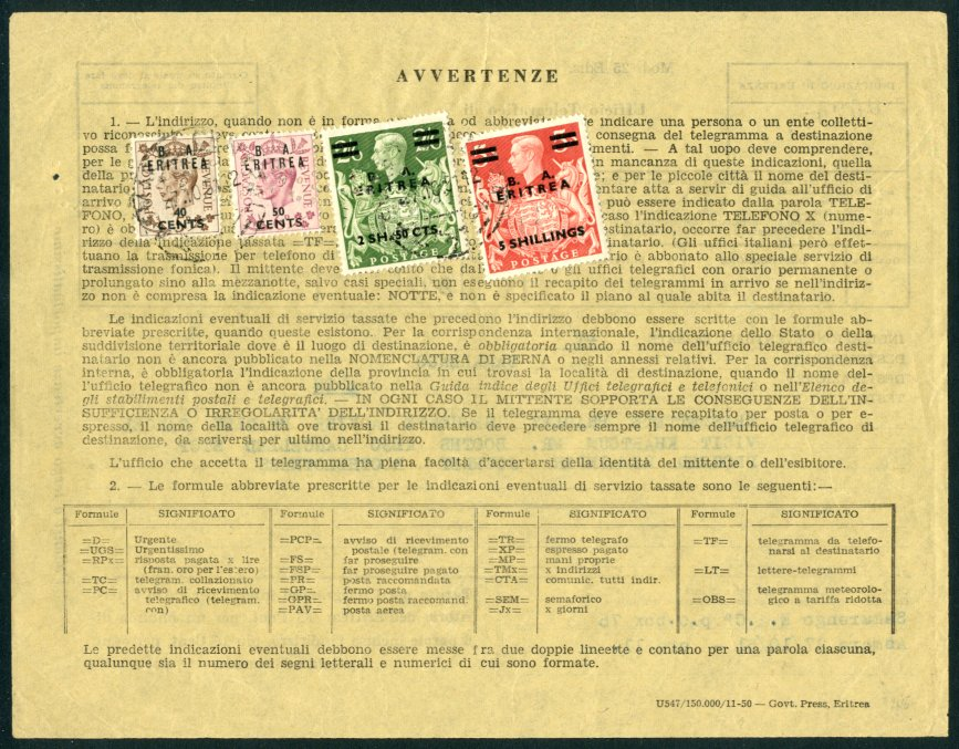 1951 complete Italian printed Telegram form bearing 1950 40c, 50c, 2s50c & 5s "B. A. Eritrea" overprints, punched and tied by "Asmara Central" cds's. Very fine condition, scarce correct usage of high values. Reverse only shown.